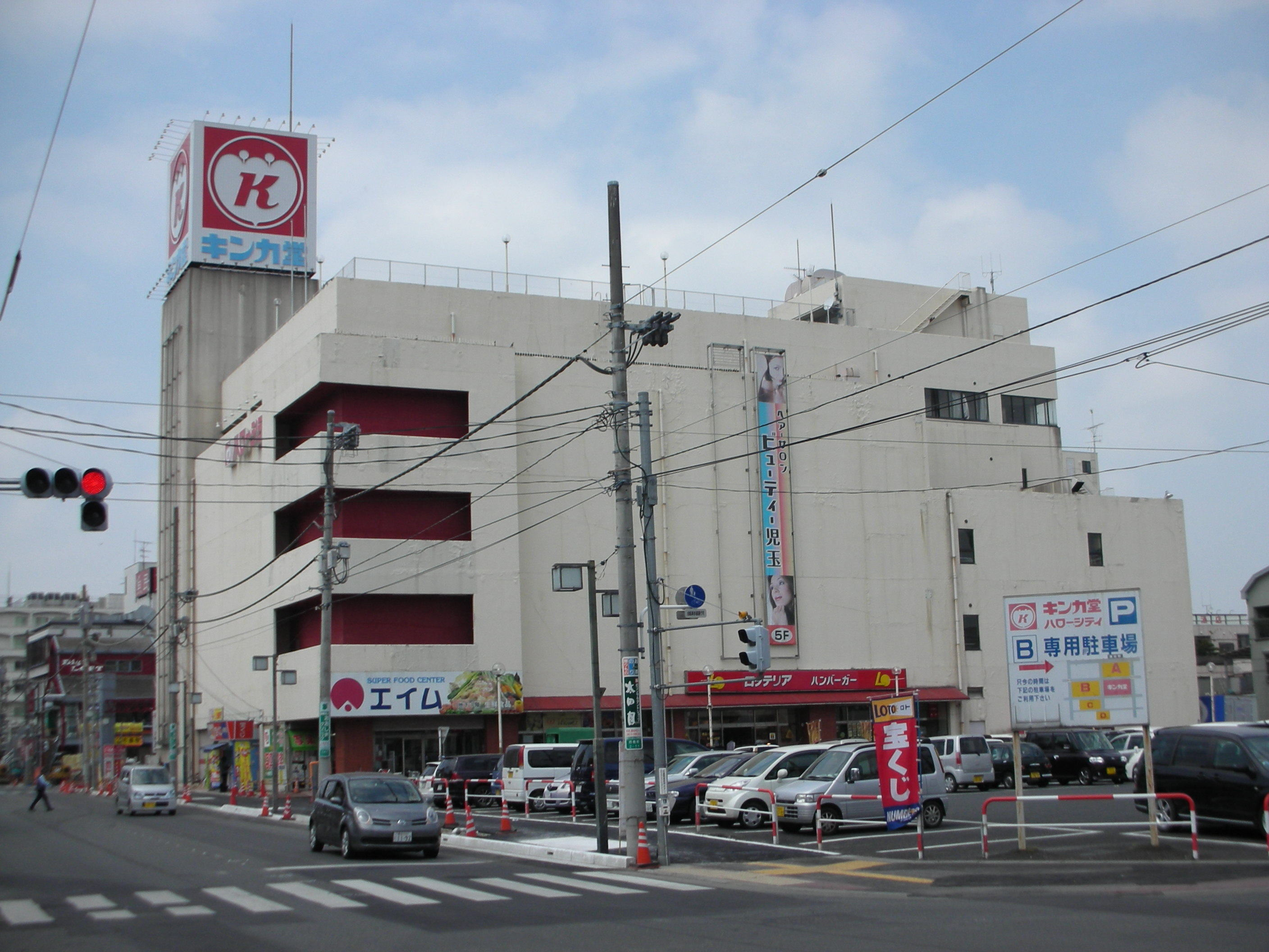 Kinkado Fukaya